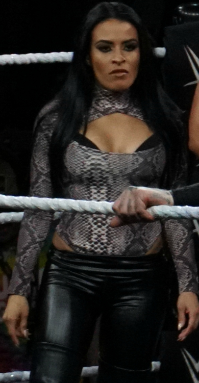 Zelina Vega at NXT TakeOver New Orleans in April 7, 2018